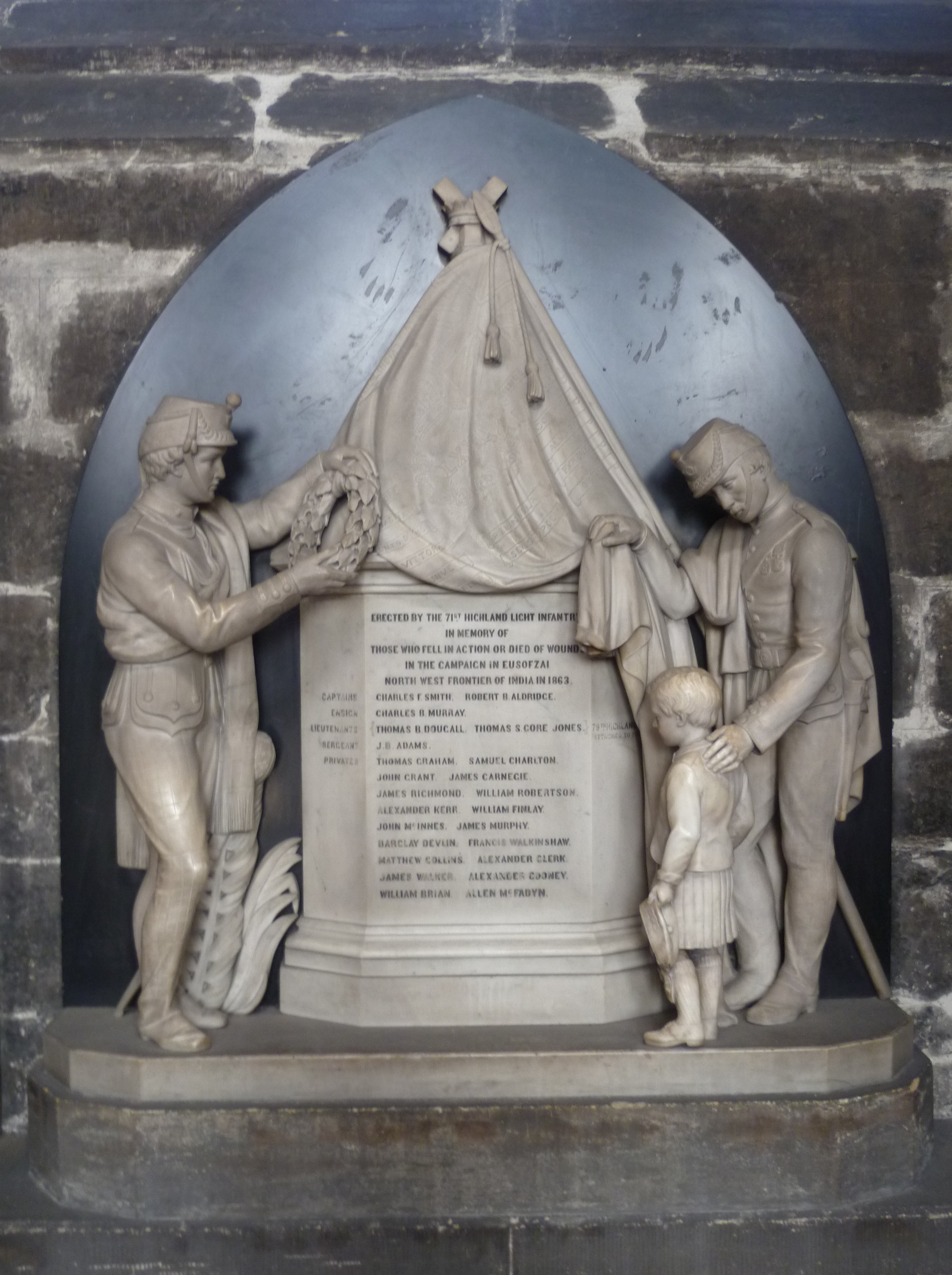 Memorial to men of the 71st Highland Light Infantry killed or fatally wounded in action on the North West Frontier of India in 1863